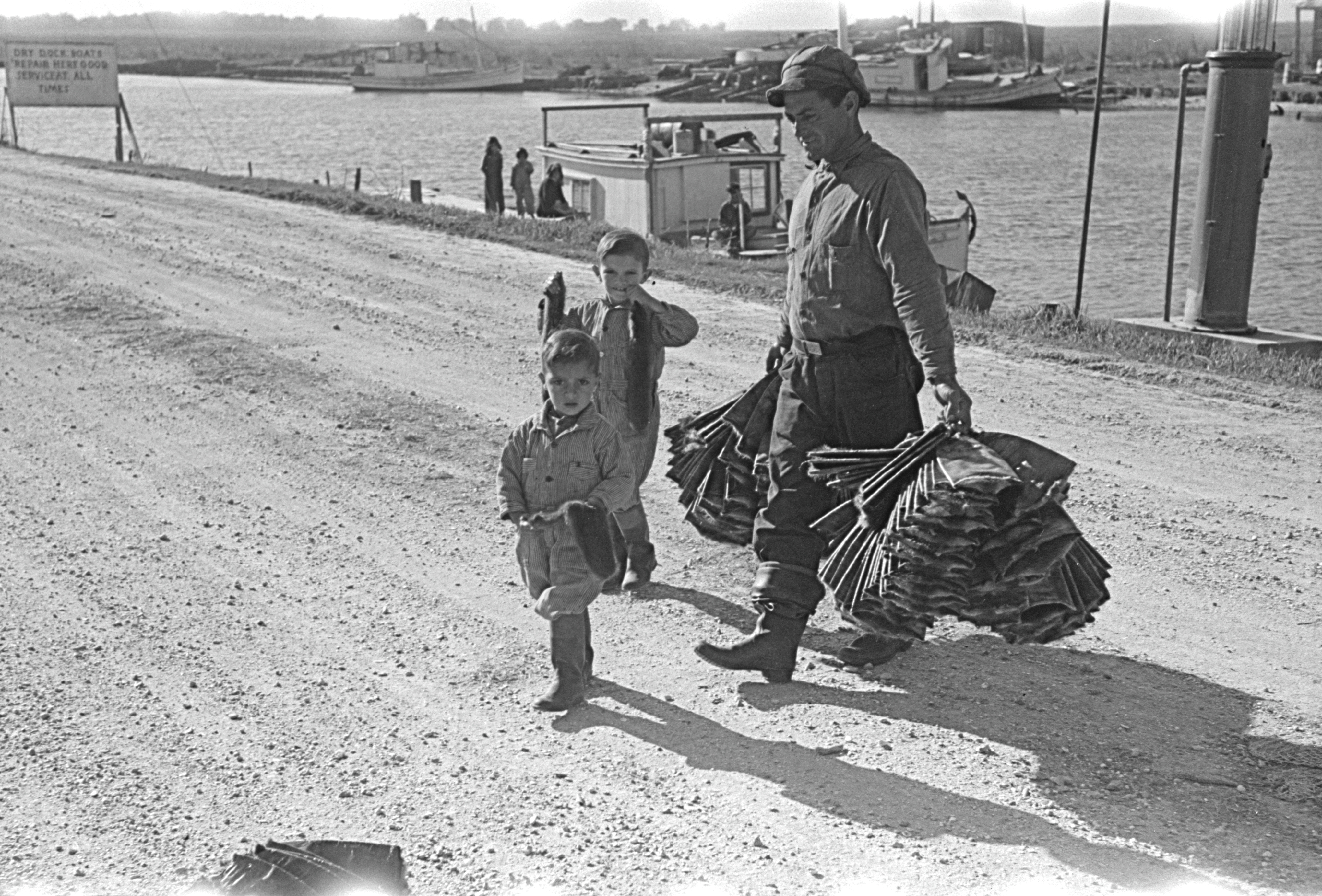 "Spanish trapper and his children taking muskrat pelts into the FSA (Farm Security Administration) auction sale which is held in a dancehall on Delacroix Island, Louisiana. The fur buyers come from New Orleans." Note: "Spanish" in this context probably means the trapper is a Louisiana Isleño